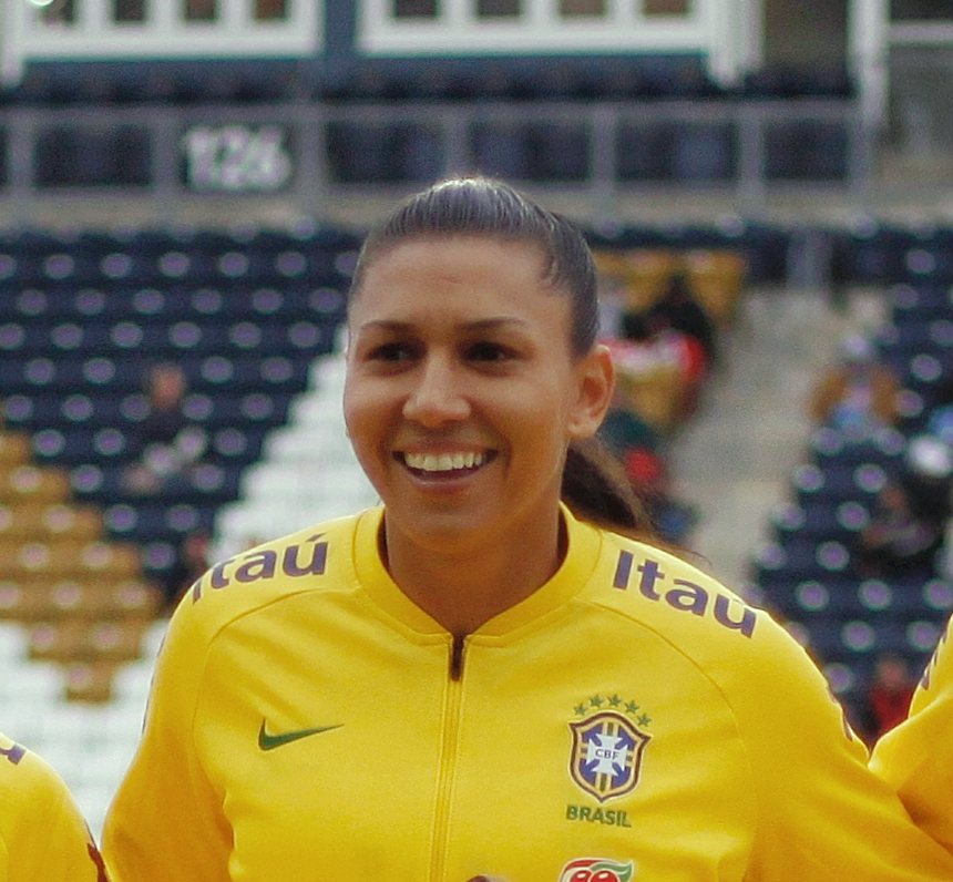 Brazil women's national football team right before the match against Japan at the 2019 SheBelieves Cup on February 27, 2019.